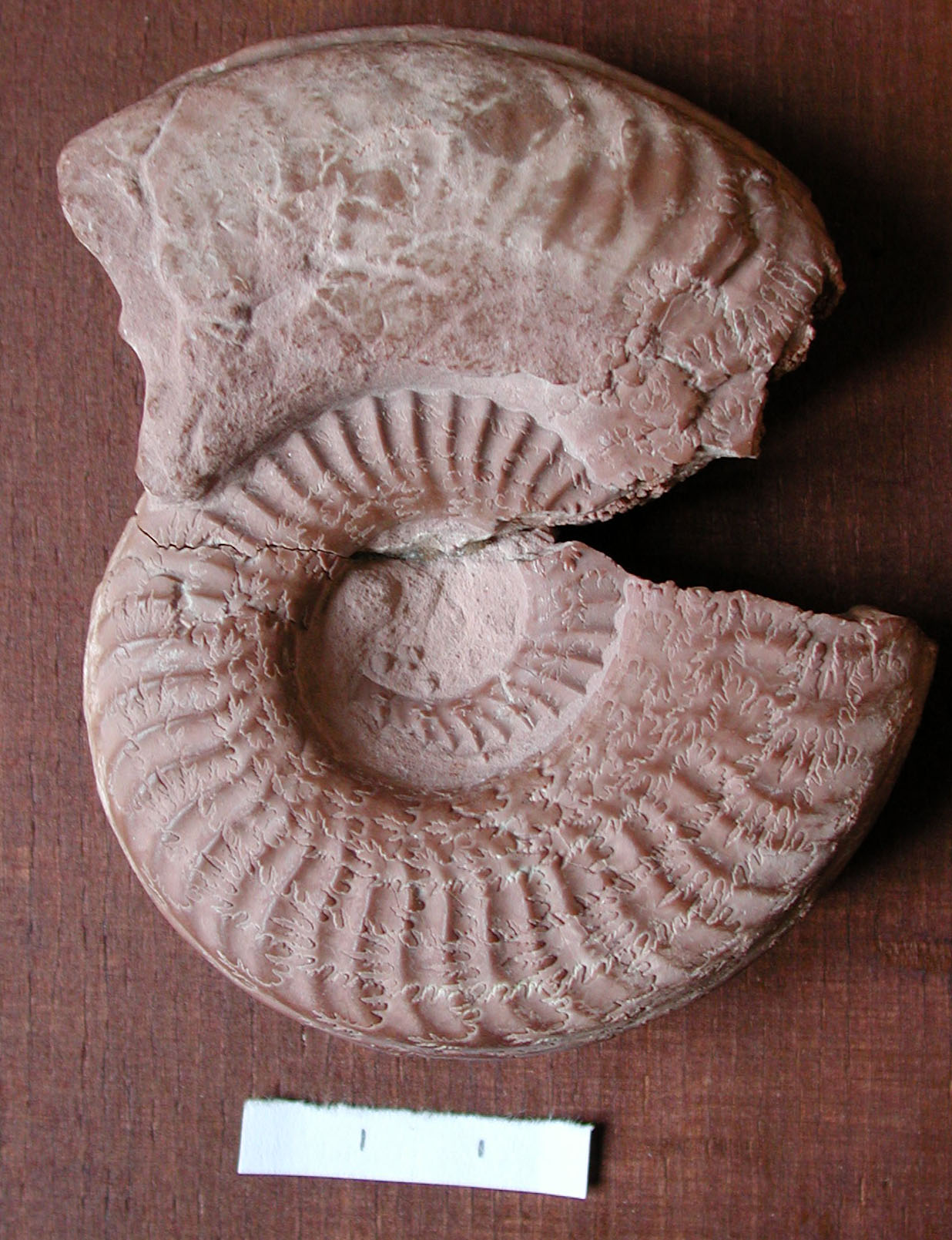 Ammonite Martanites prorsiradiatus